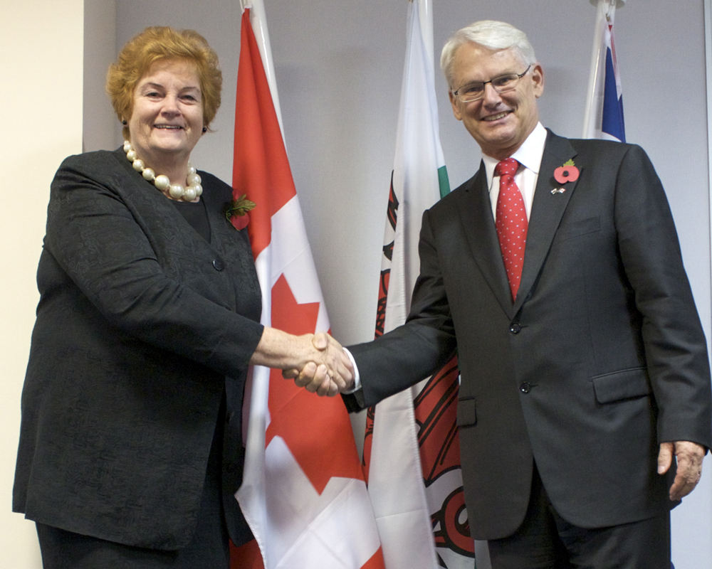 Presiding Officer Rosemary Butler AM meets Mr. Gordon M. Campbell, High Commissioner for Canada, 3 November 2011